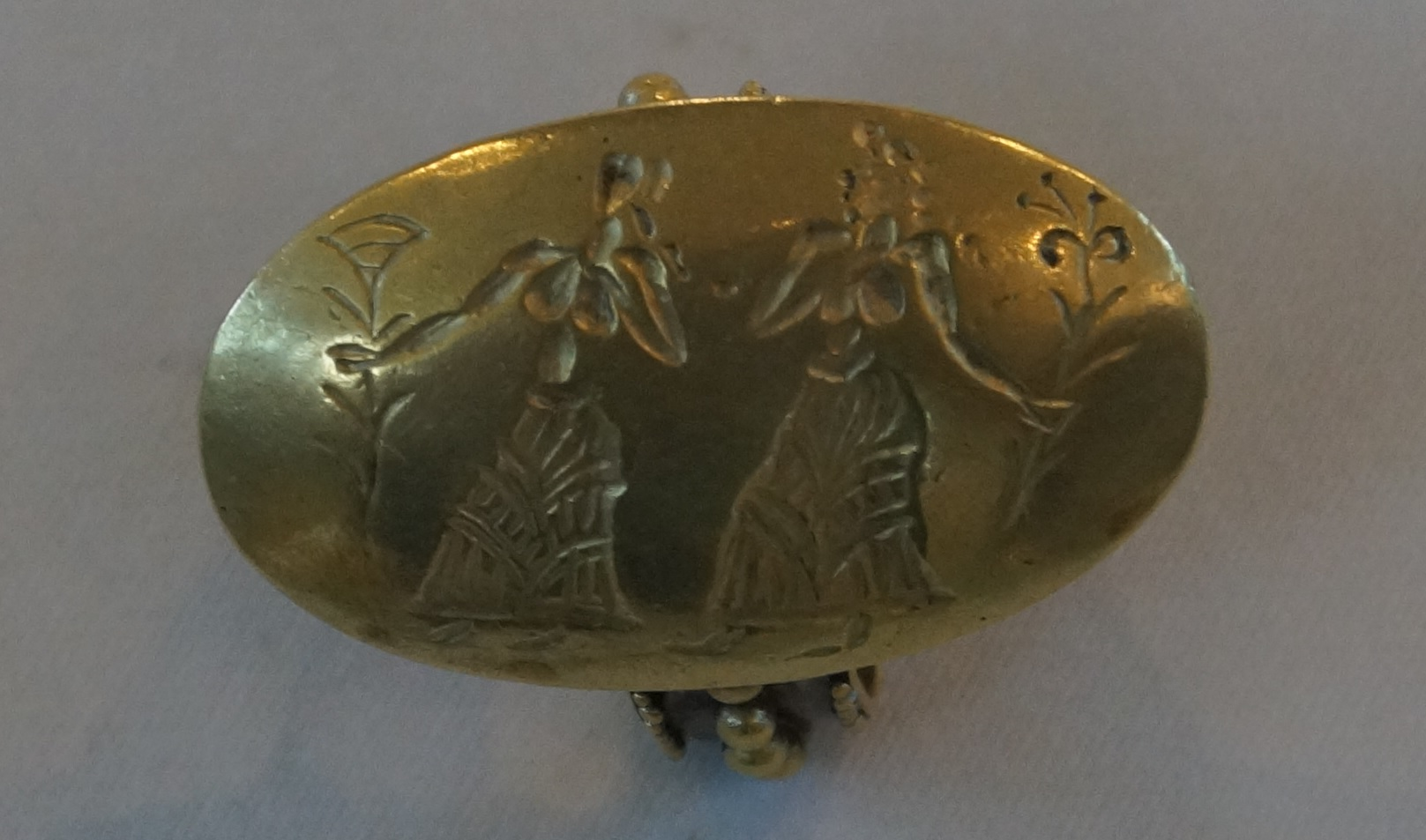 Archea Nemea, Corinthia, Greece: Mycenaean Gold Signet Ring MN 1006 showing two woman holding flowers. Part of the Repartriated Mycenaean Treasure of the Mycenaean cemetery of Aidonia in the Archaeological Museum of Nemea.